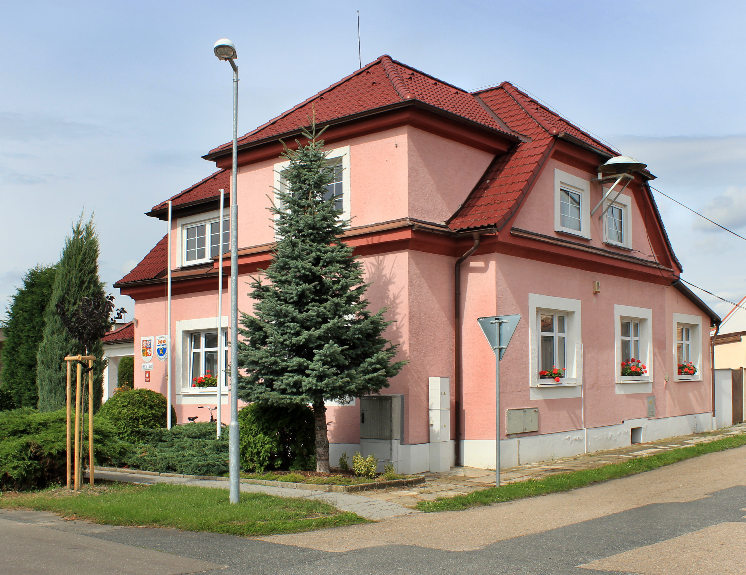 Municipal office in Třebestovice, Czech Republic.